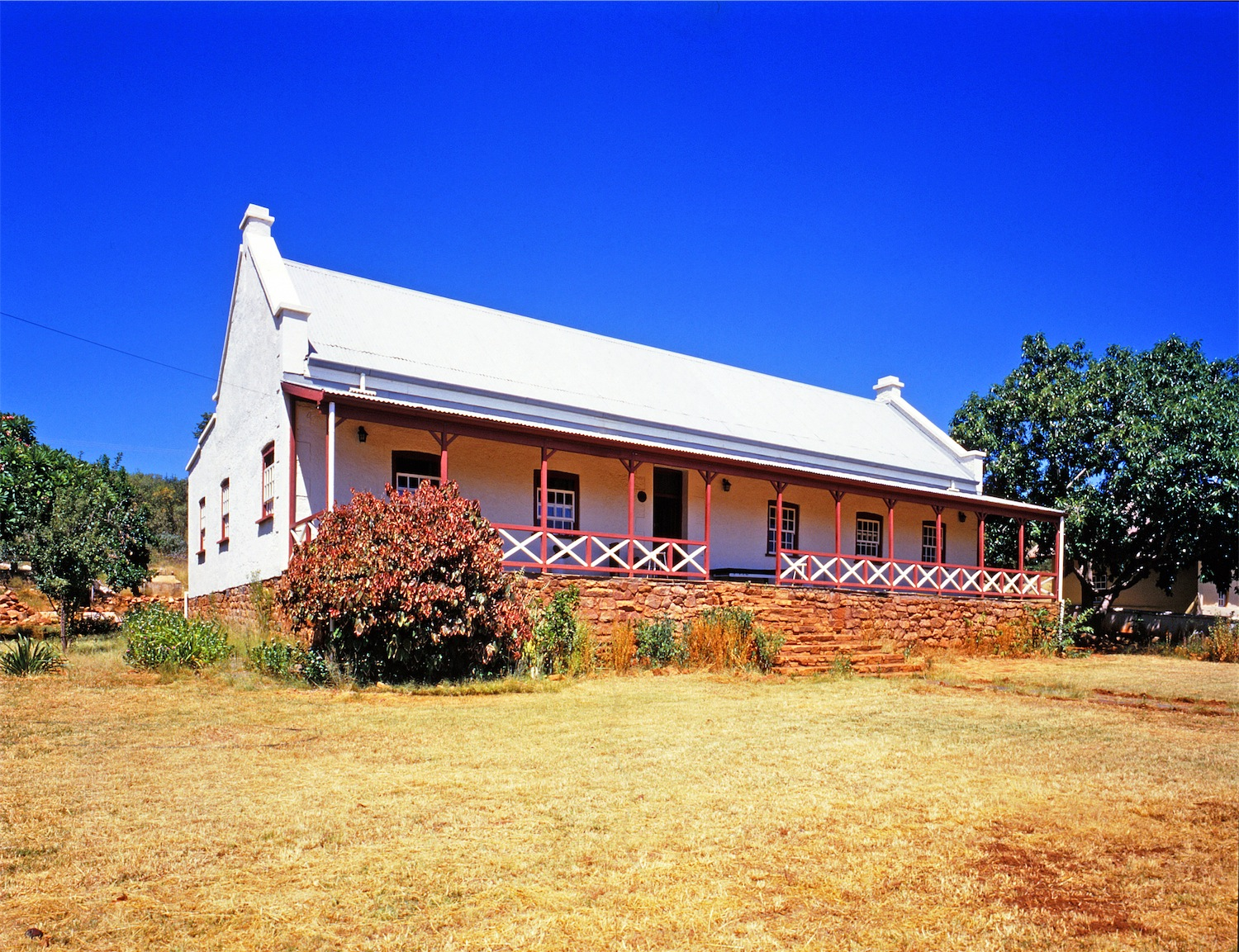 This media shows a South African Protected Site with SAHRA file reference 9/2/263/0007.